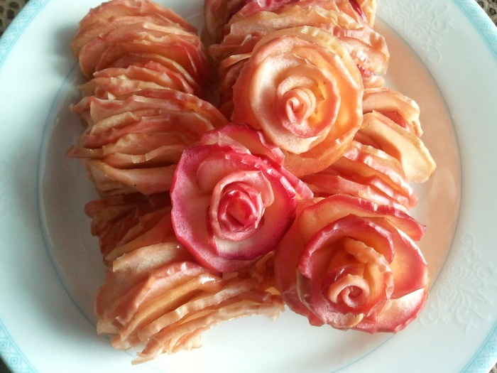 sagwa jeonggwa (apple sweet)